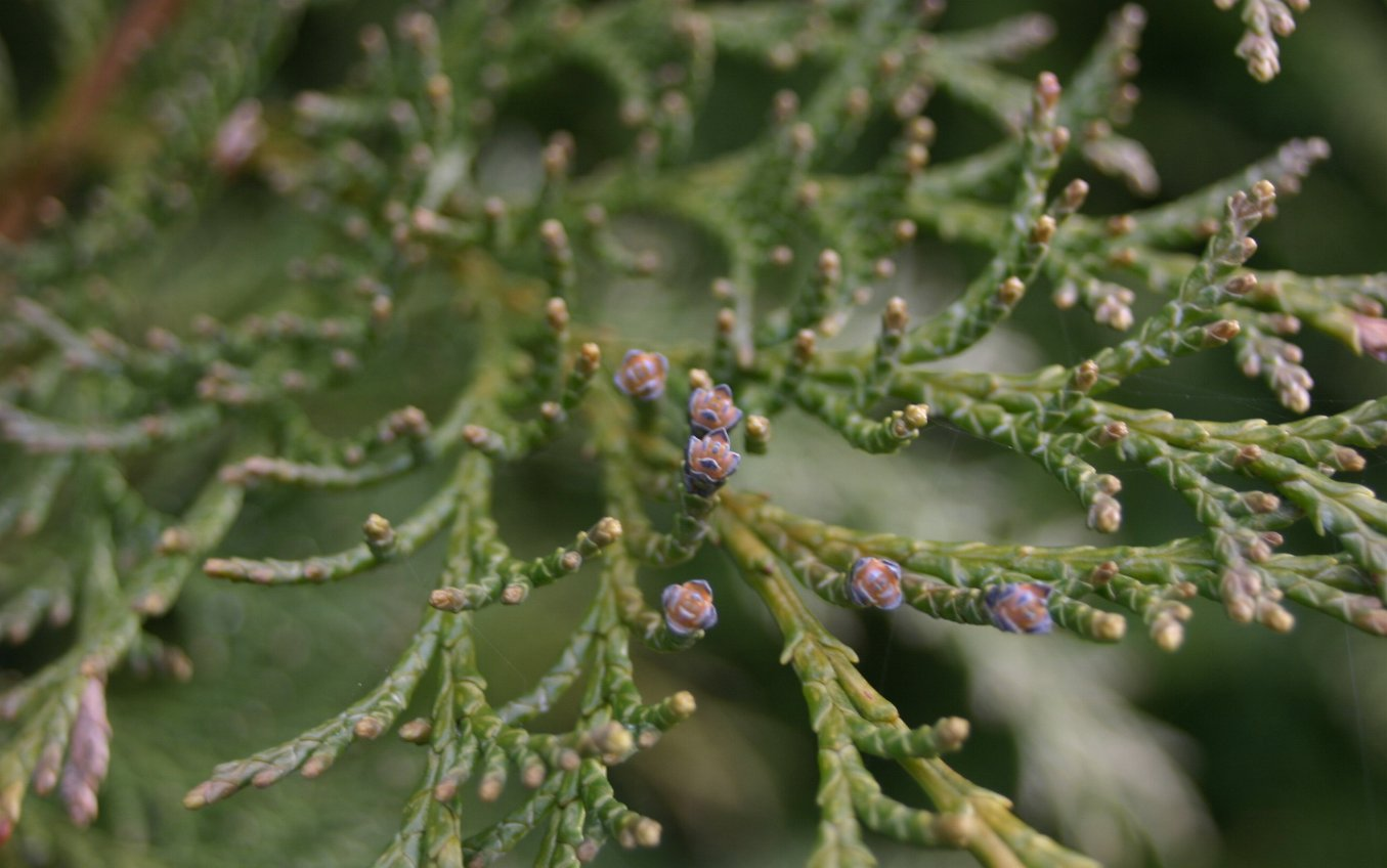 Chamaecyparis lawsoniana: Male Young female cones